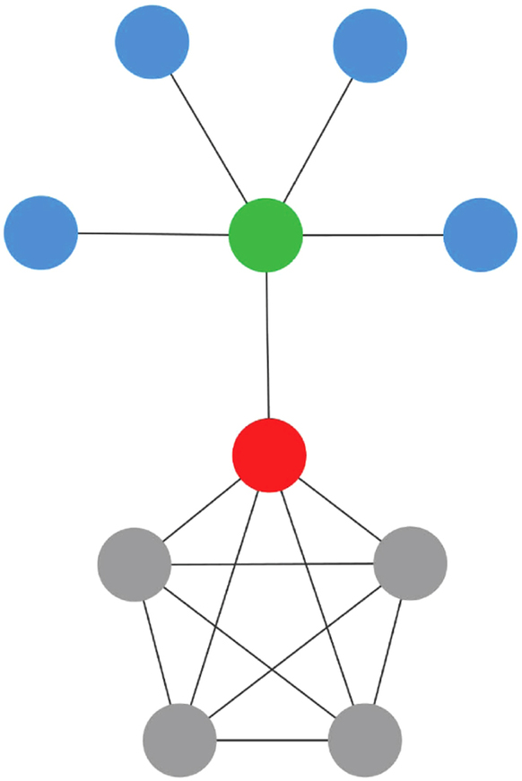 In the illustrated network, green and red nodes are the most dissimilar because they do not share neighbors between them. So the green node is more relevant than gray nodes for the red one, because only through green node, the red one can access to the blues and it can access directly to any gray node.